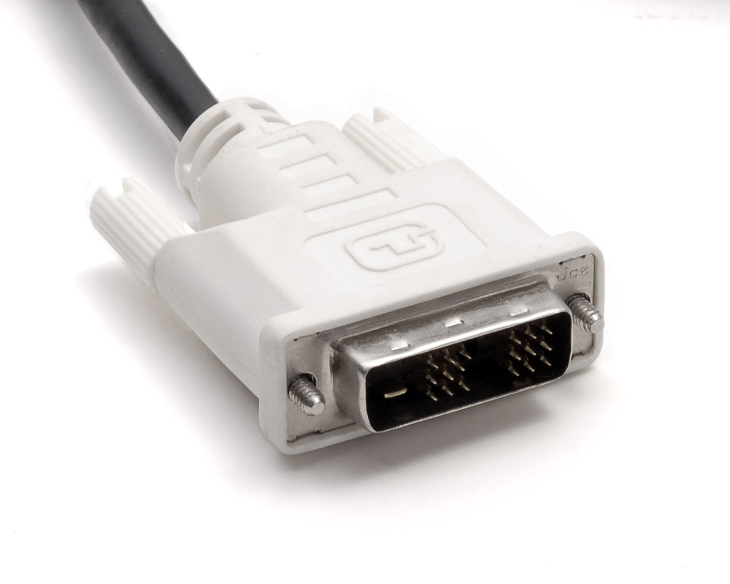 A DVI cable, used for hooking up computer monitors or other video equipment.